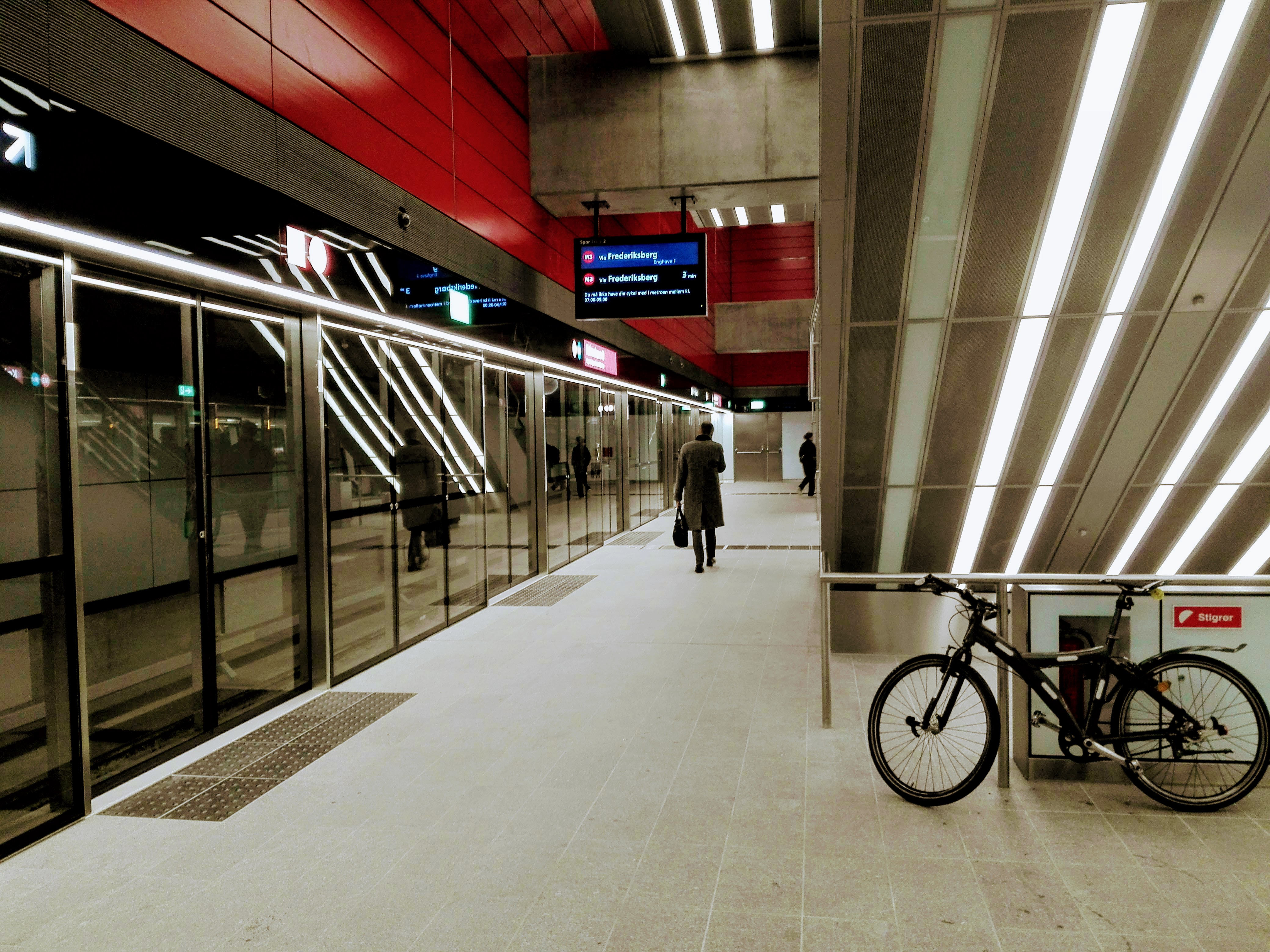 Platform level